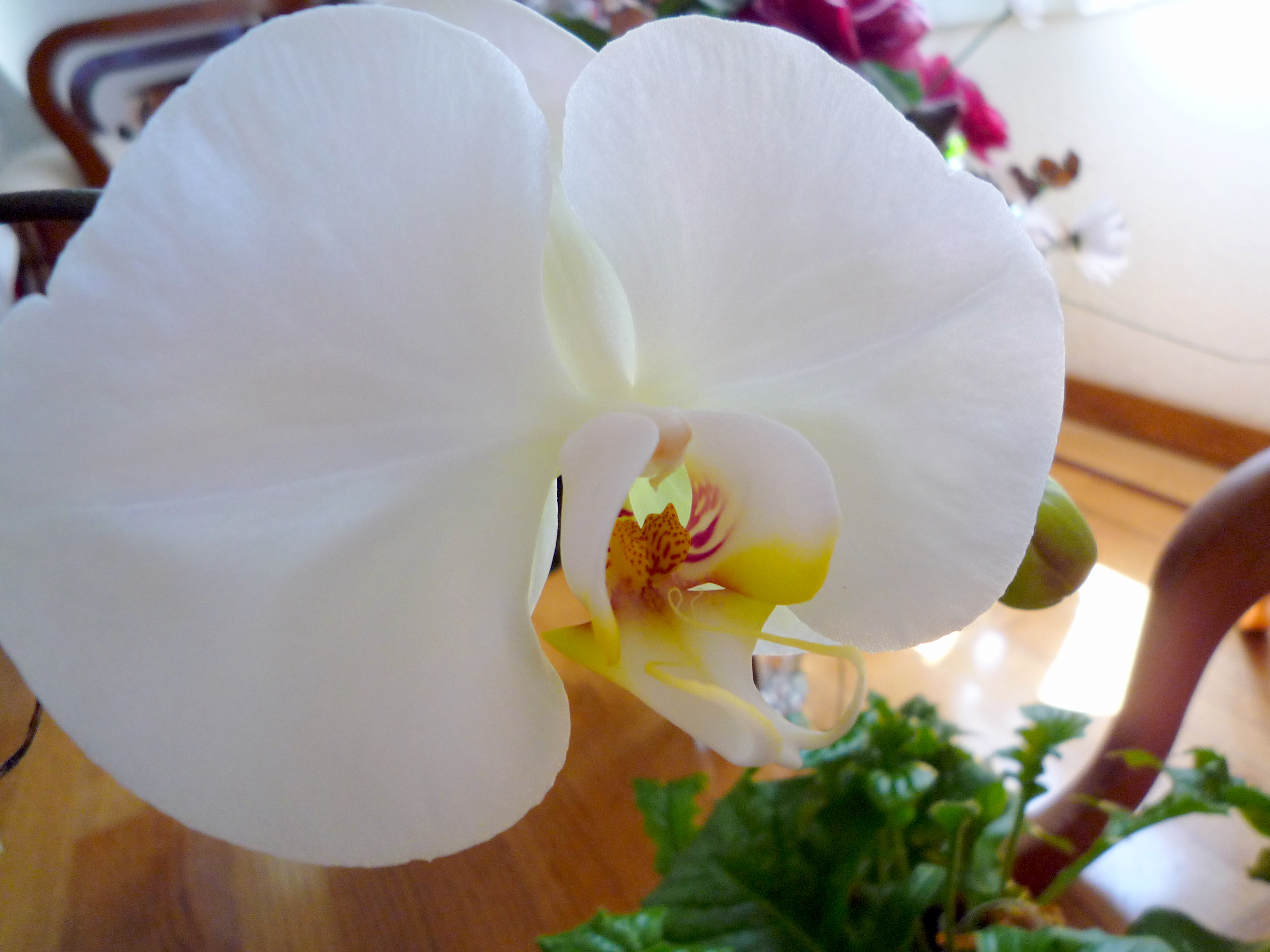 A close-up of a Phalaenopsis Cultivars flower.